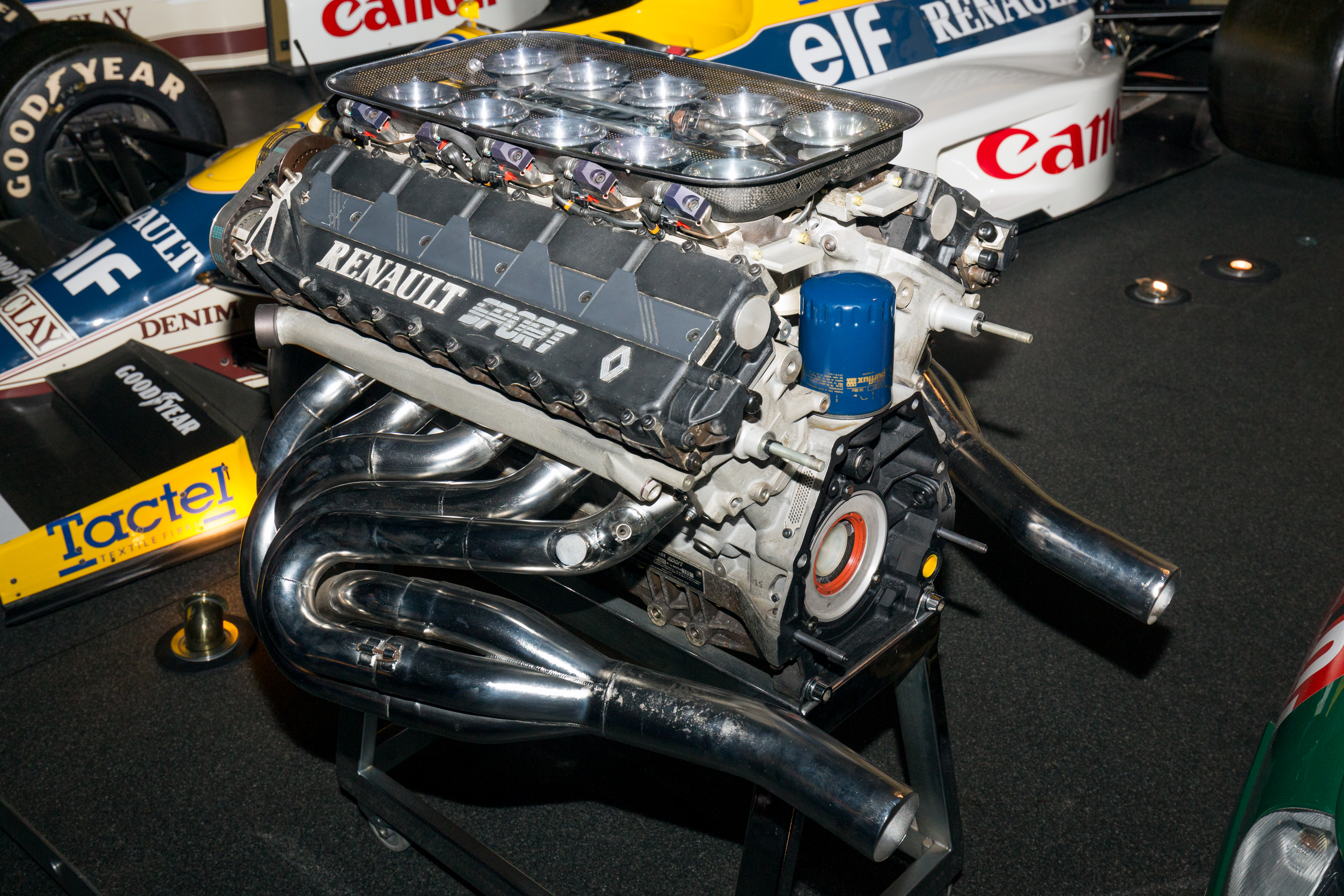 Williams Conference Centre (Grove): Renault RS1 engine